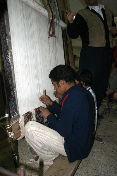 Making a carpet - Egypt